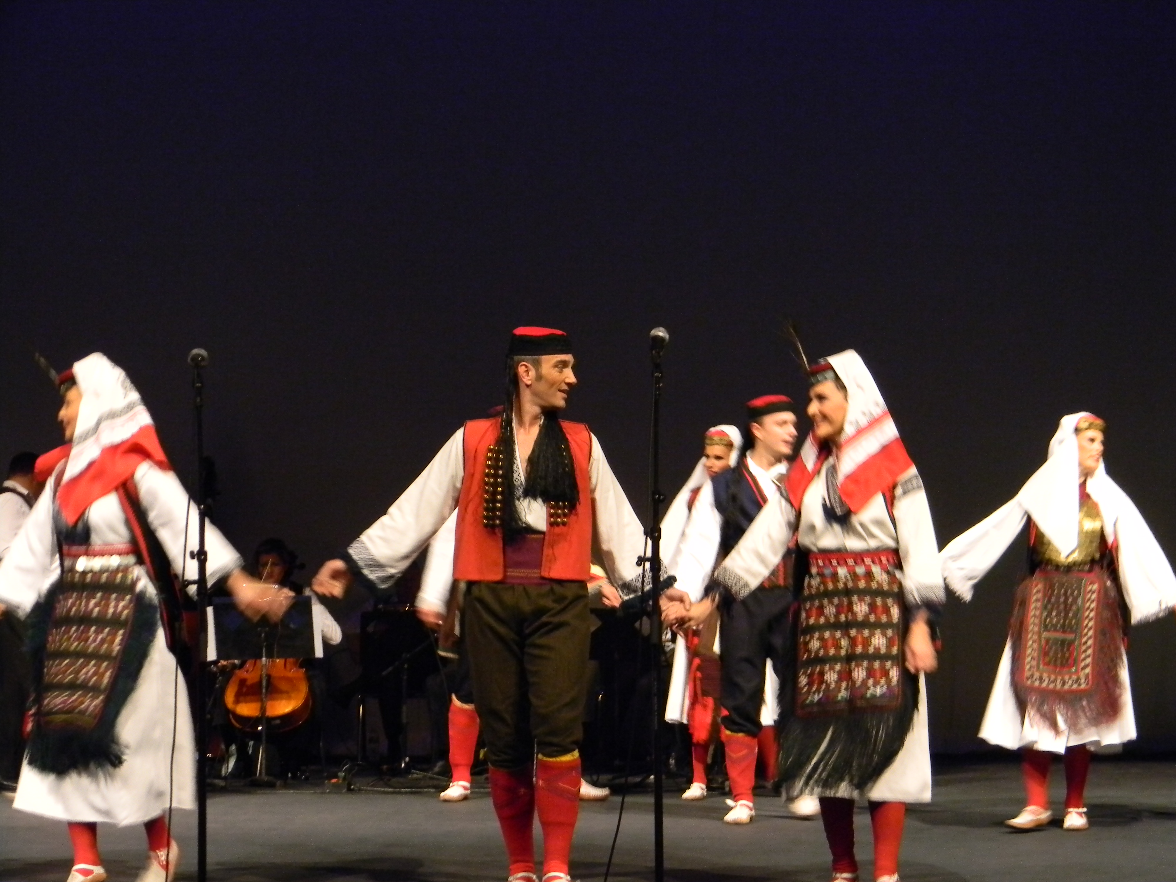 The Serbian National Folk Dance Ensemble Kolo presents Old Silent dance from Glamoch. Hamilton, Canada - 2011. Choreographer Olga Skovran